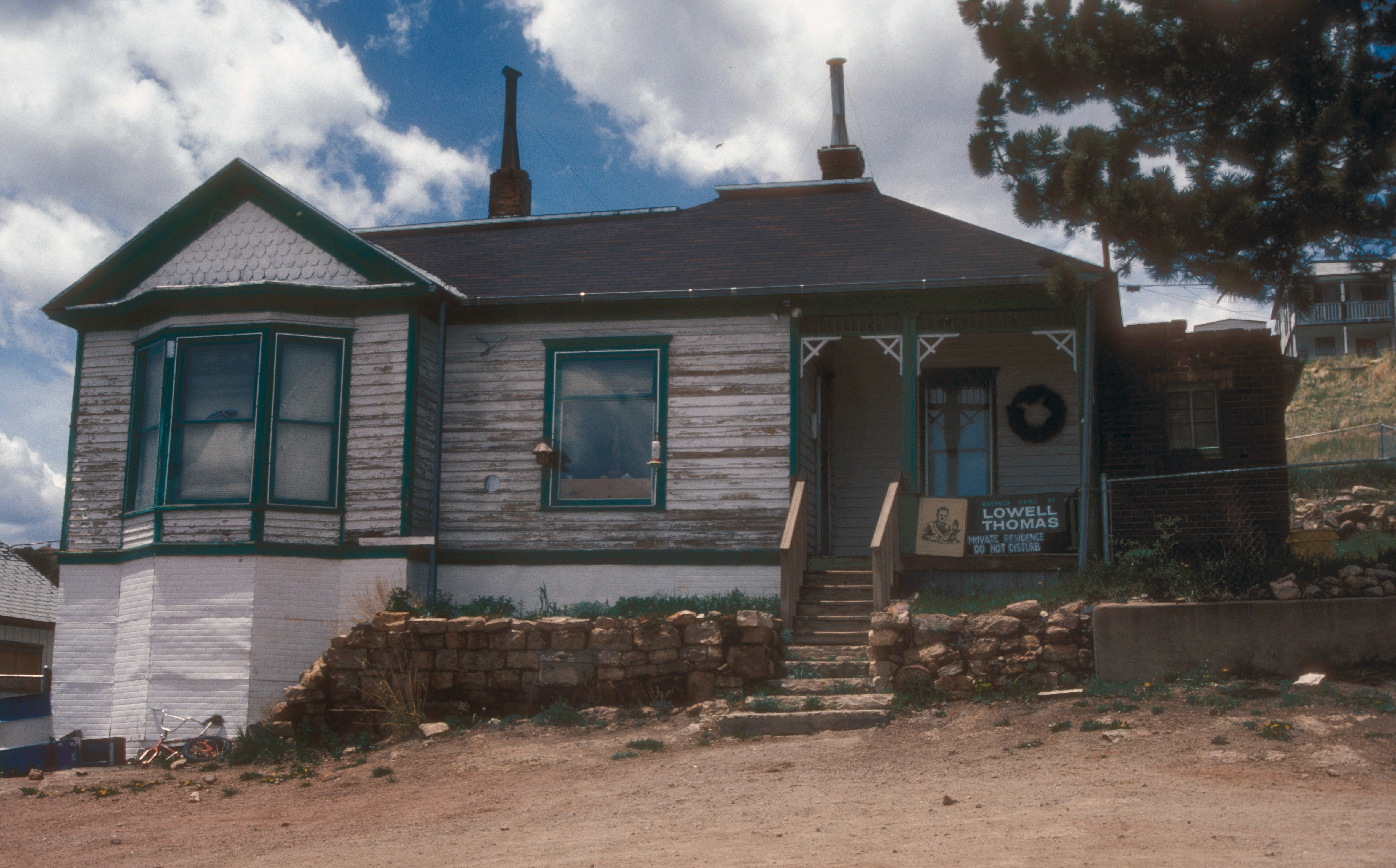 BOYHOOD HOME OF LOWELL THOMAS - JOURNALIST, WORLD TRAVELER, LECTURER. IN 1900, THE FAMILY MOVED TO THE MINING TOWN OF VICTOR, COLORADO. THERE HE WORKED AS A GOLD MINER, A COOK, AND A REPORTER ON THE NEWSPAPER. HE WAS BORN IN OHIO